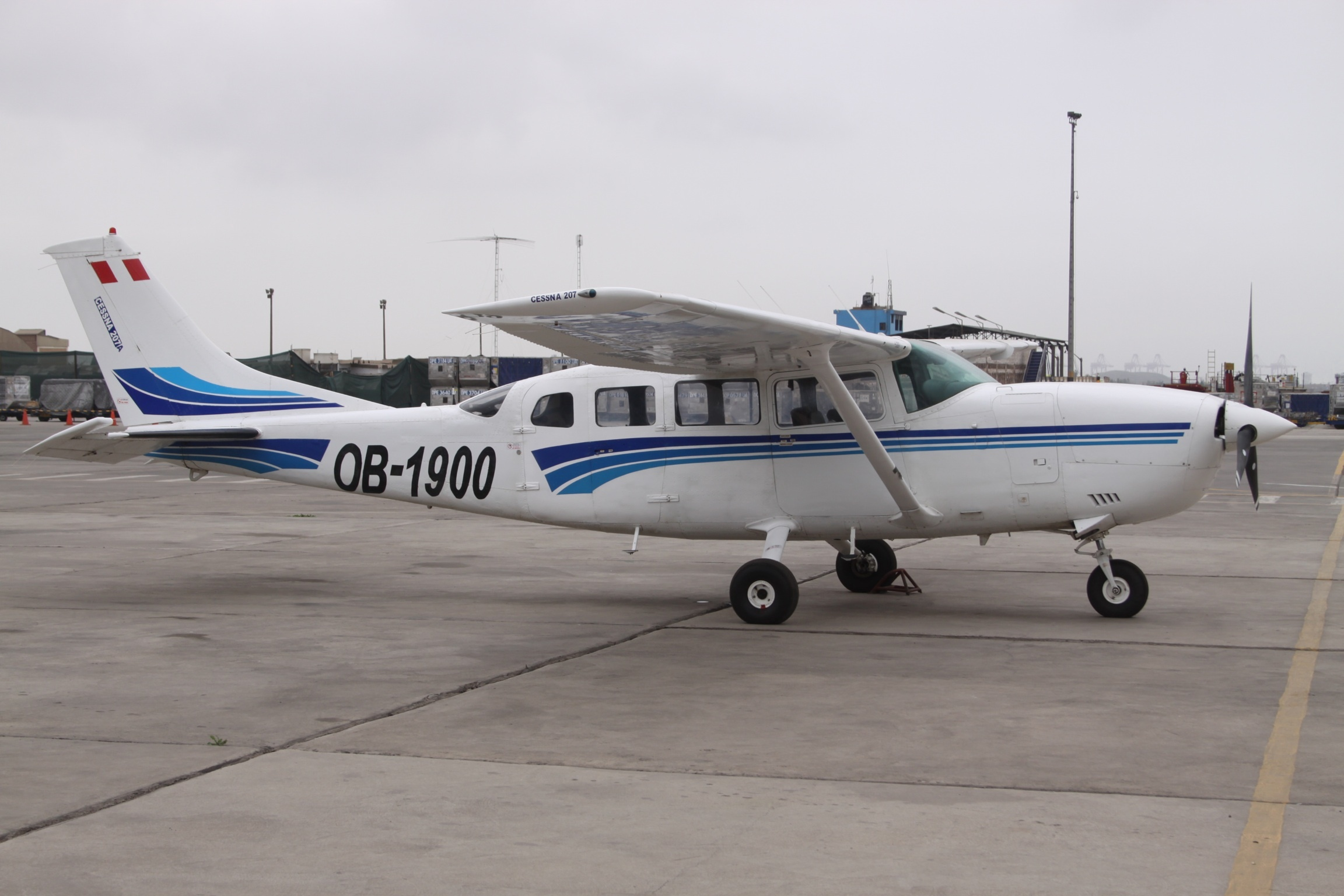 At Lima Jorge Chávez International